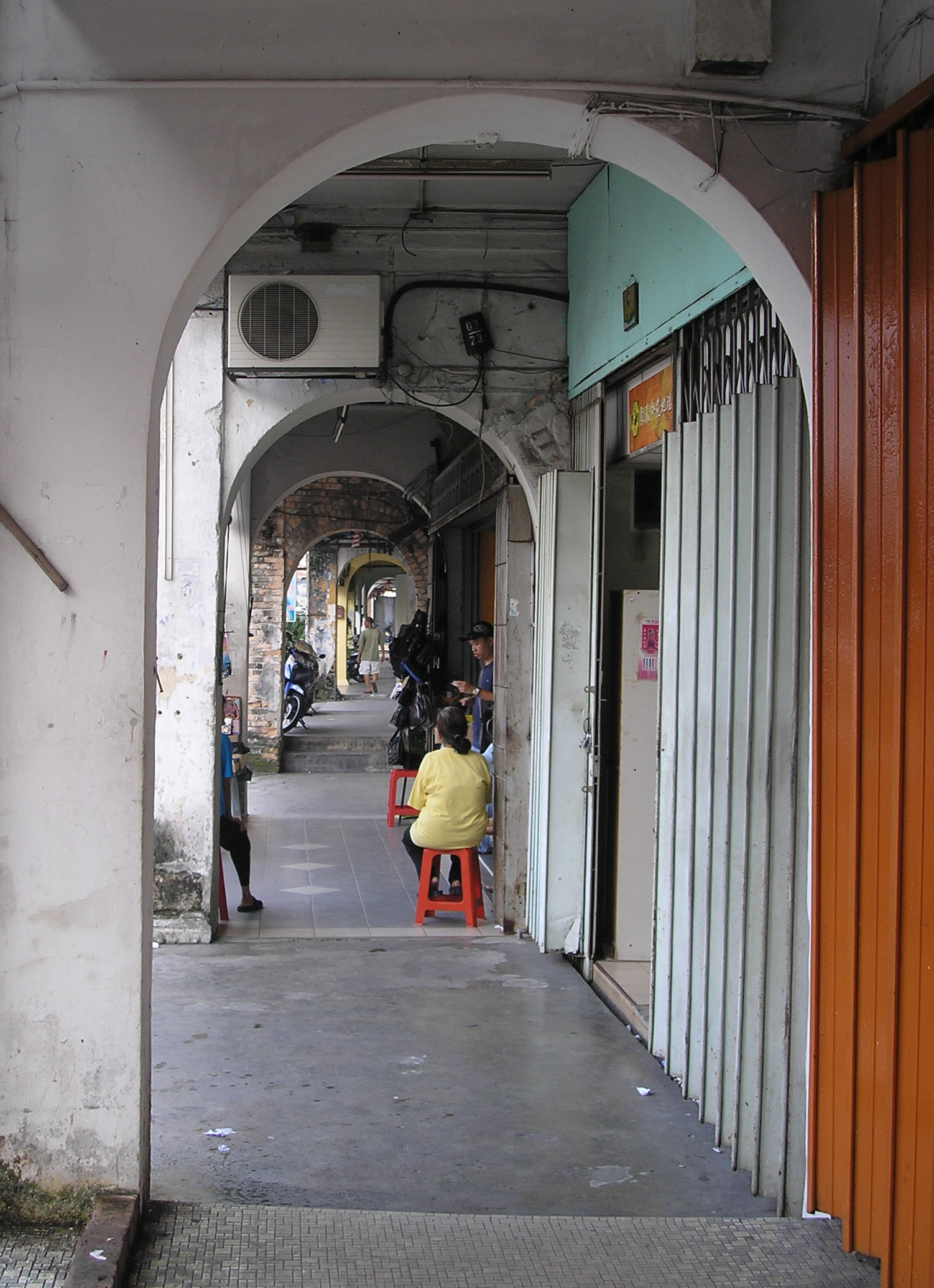 A five foot way along the main street (Jalan Besar) of Ampang, Selangor, Malaysia.